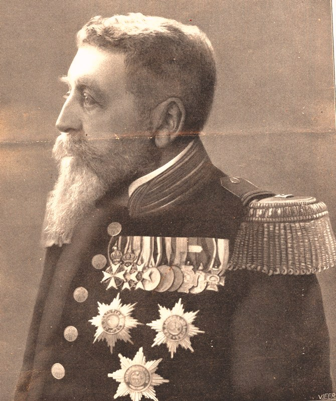 J.E.N. Sirtema van Grovestins